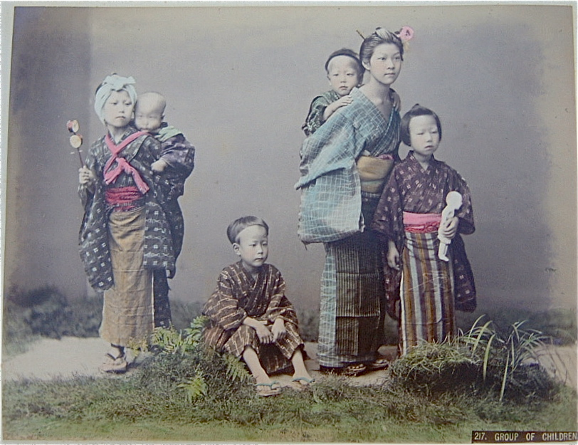 Hand colored albumen print by Kusakabe Kimbei